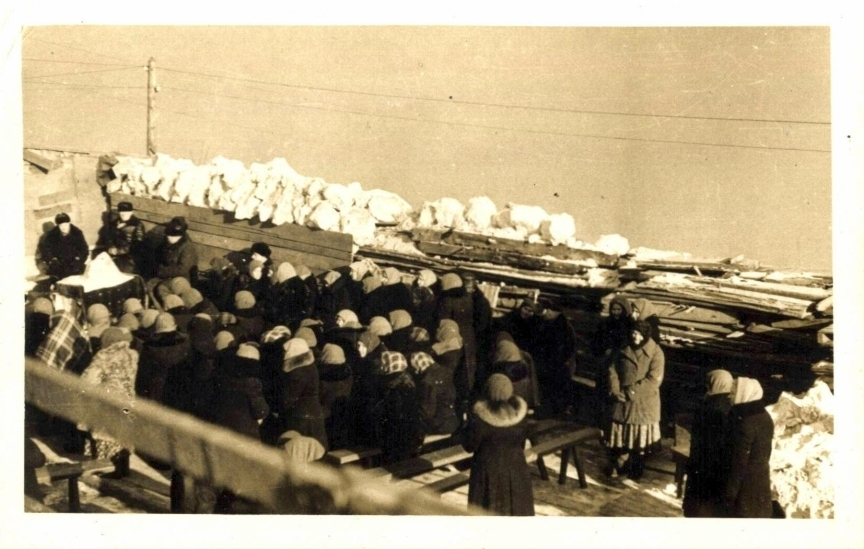 Year 1965. Worship service of the Church of Evangelical Christians Baptists in Vladivostok in the ruins of the house of prayer that was unlawfully destroyed by the town government in 1959.